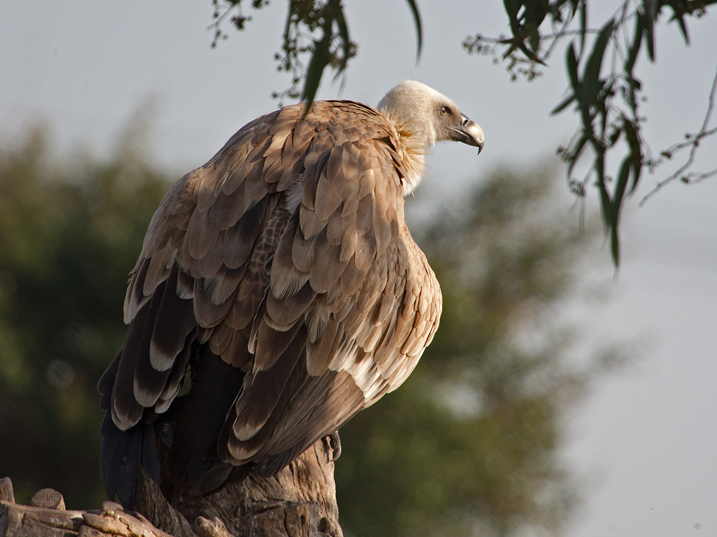 Griffon vulture